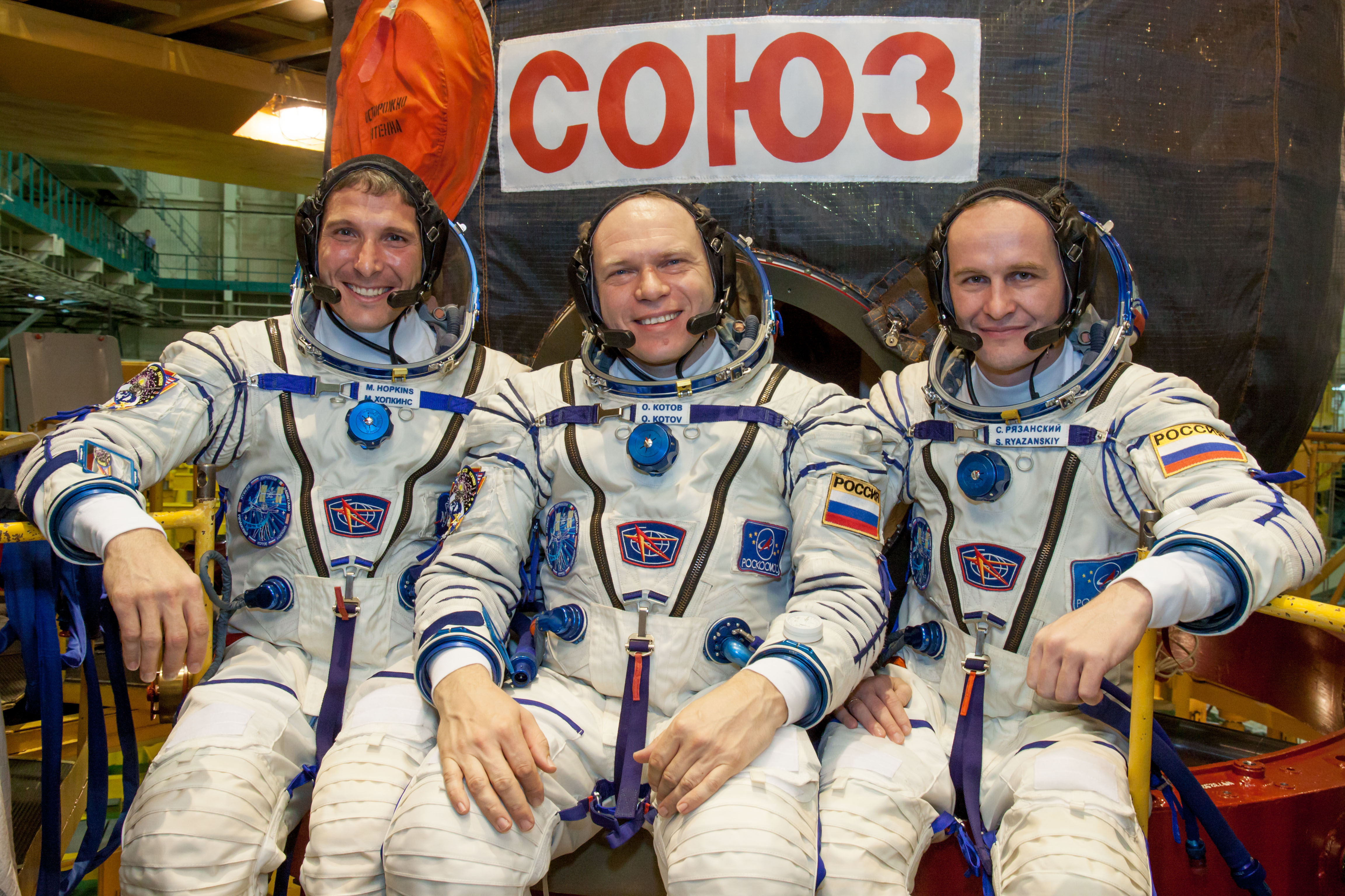 Clad in their Russian Sokol launch and entry suits at the Baikonur Cosmodrome in Kazakhstan, Expedition 37/38 Flight Engineer Michael Hopkins of NASA (left), Soyuz Commander Oleg Kotov (center) and Flight Engineer Sergey Ryazanskiy (right) pose for pictures in front of their Soyuz TMA-10M spacecraft Sept. 14 during a "fit check" dress rehearsal training exercise. The three crew members are preparing for launch Sept. 26, Kazakh time, from Baikonur to begin a five and a half month mission on the International Space Station.